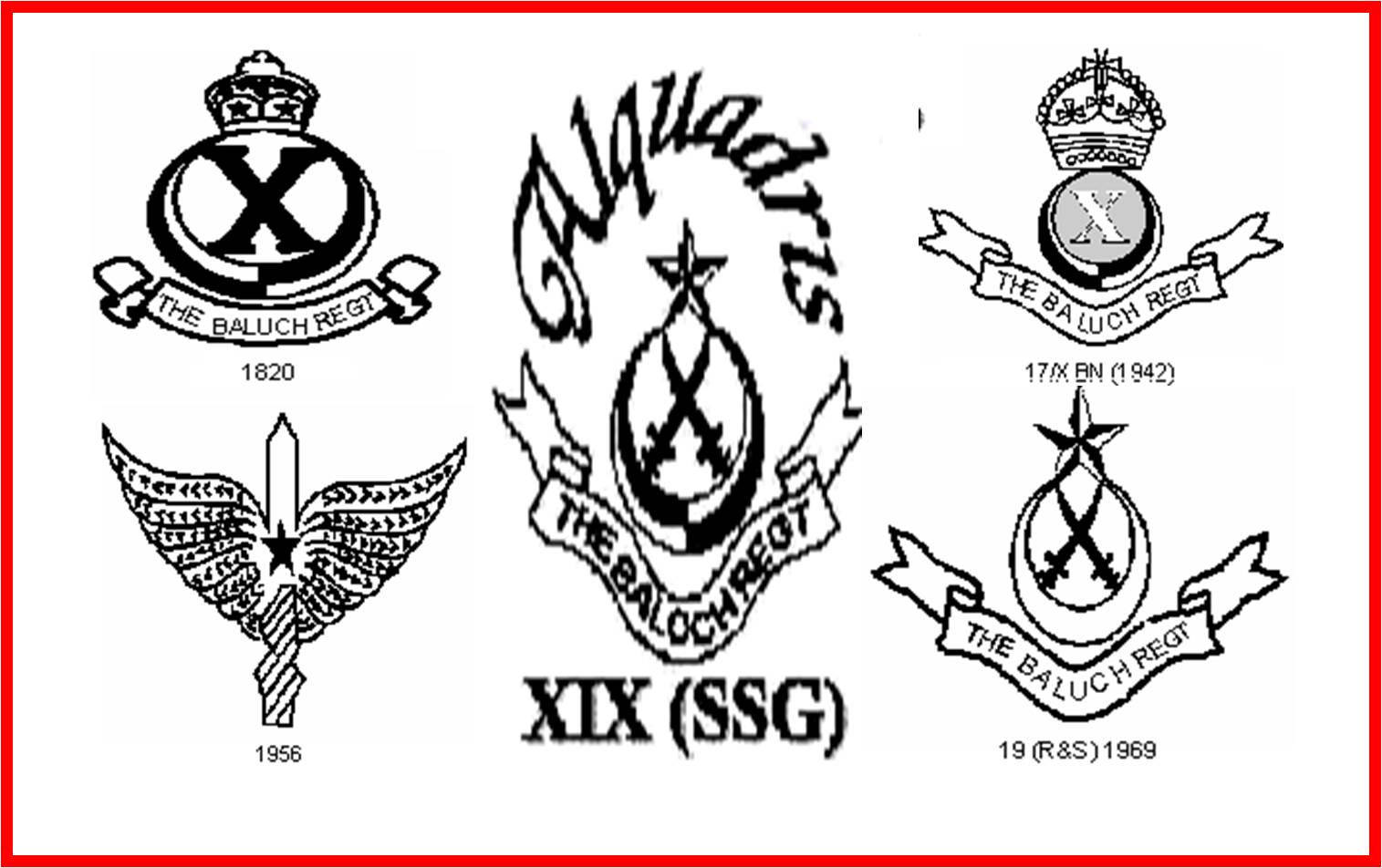 A layout of various badges which have been used by 17/10 Baluch and later 19 Baloch (SSG).